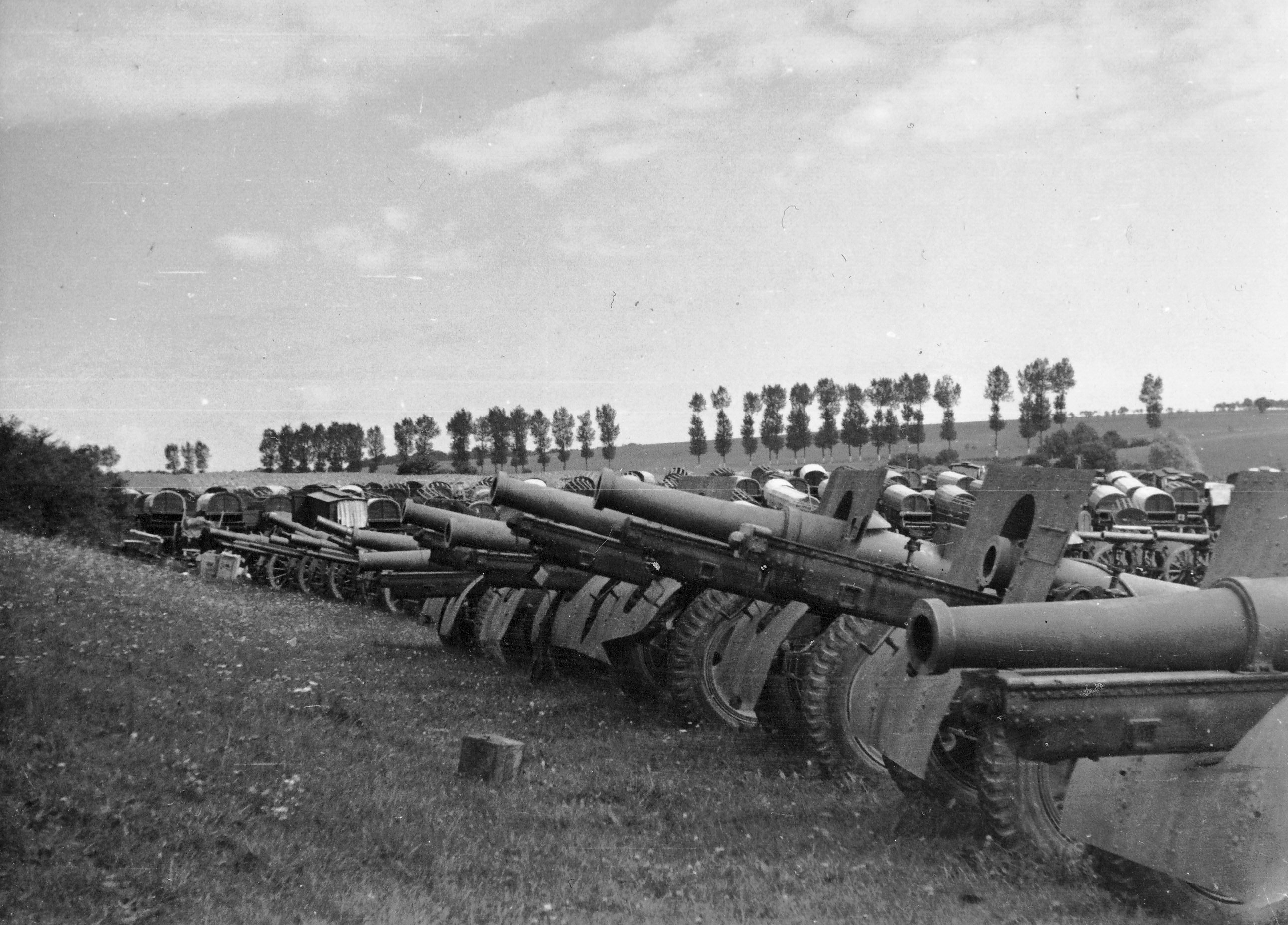 Operation Barbarossa: Most likely photo of Russian equipment that fell into German hands in early days of the war. Comment : These appear to be Canon de 155 C modèle 1917 Schneider. Possibly Polish guns.